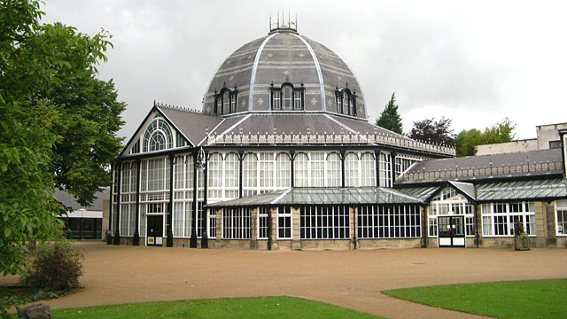 The Pavilion Gardens, St. John's Road, Buxton The Buxton Pavilion Gardens host many events throughout the year. Pictured is the Octagon Hall from the Pavilion Gardens. If visiting, be aware that parking can be a problem in the area on busy days!